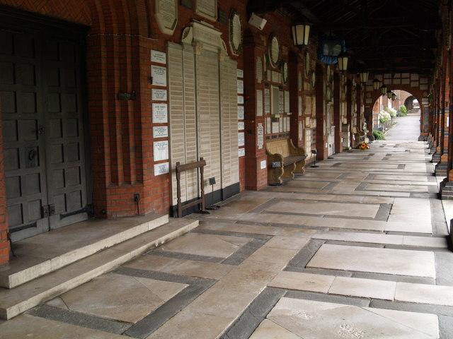 Golders Green Crematorium